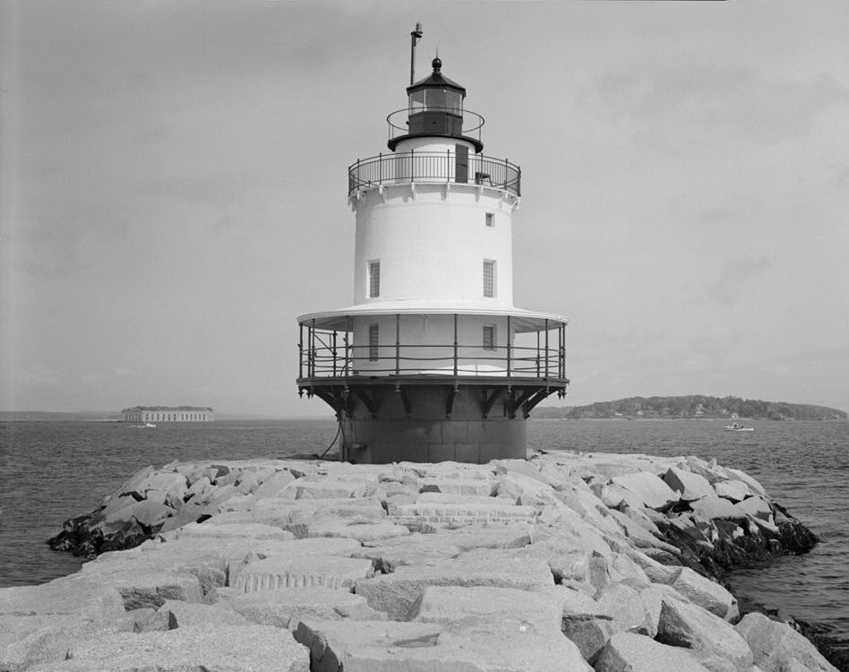 Spring Point Ledge Light Station, End of breakwater at foot of Fort Preble, South Portland, Cumberland County, ME. HABS ME,3-PORTS,3-3